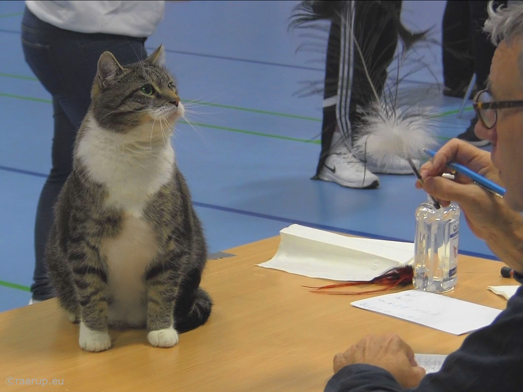 Bastian with FIFé judge Ad De Bruijn at the Darak cat show in Strøby, Denmark, 05.11.2016.